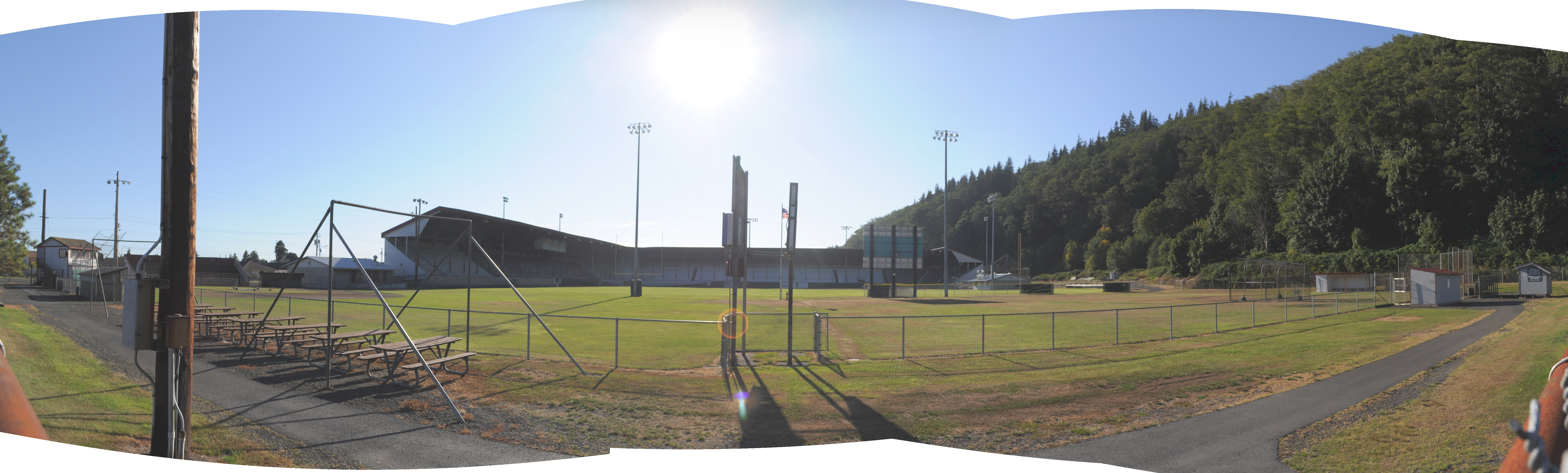 Olympic Stadium, Hoquiam, Washington. This image was created with Hugin